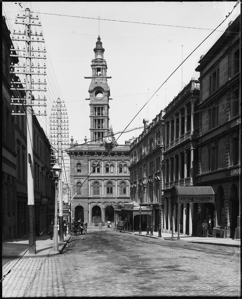 'Sydney City' Pictures from The Powerhouse Museum